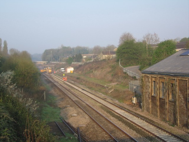 Corsham railway station Engine House and eastbound platform. Not used as a station since the 1960s, the engine house is used as a auto body repair workshop. The Great Western Main Line still passes through Corsham station.